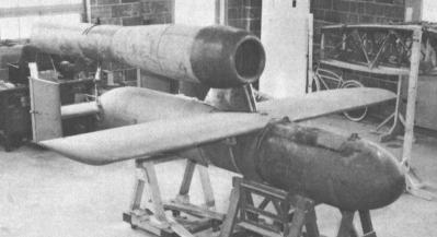 JB-4 pulsejet-powered flying bomb in shop at Wright Field, Dayton, Ohio.